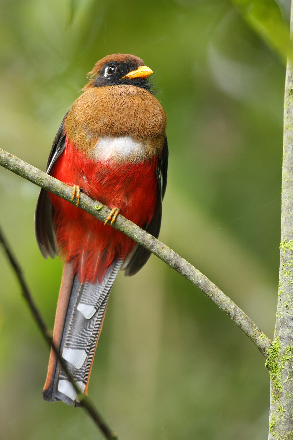 Female Masked Trogon (Trogon personatus), Tandayapa Valley, NW Ecuador